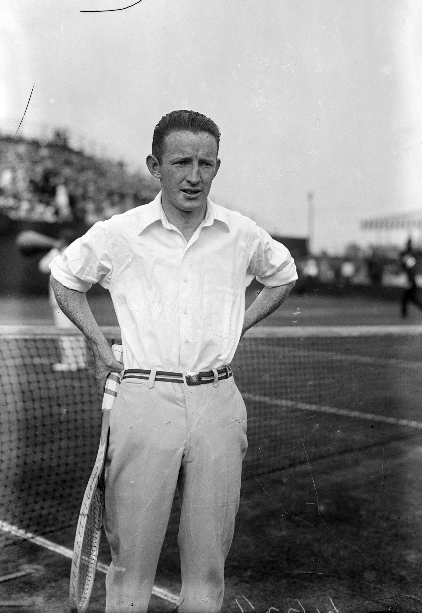 William Marquitz Johnston in 1916 in his match against Richard "Dick" Norris Williams II at the 1916 U.S. National Championship held August 28–Sept. 5, 1916 in Forest Hills, New York.